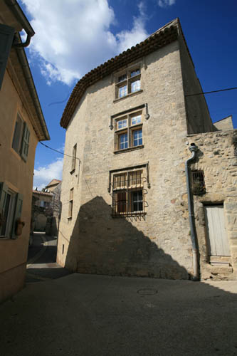 Village of Viens in Vaucluse, France